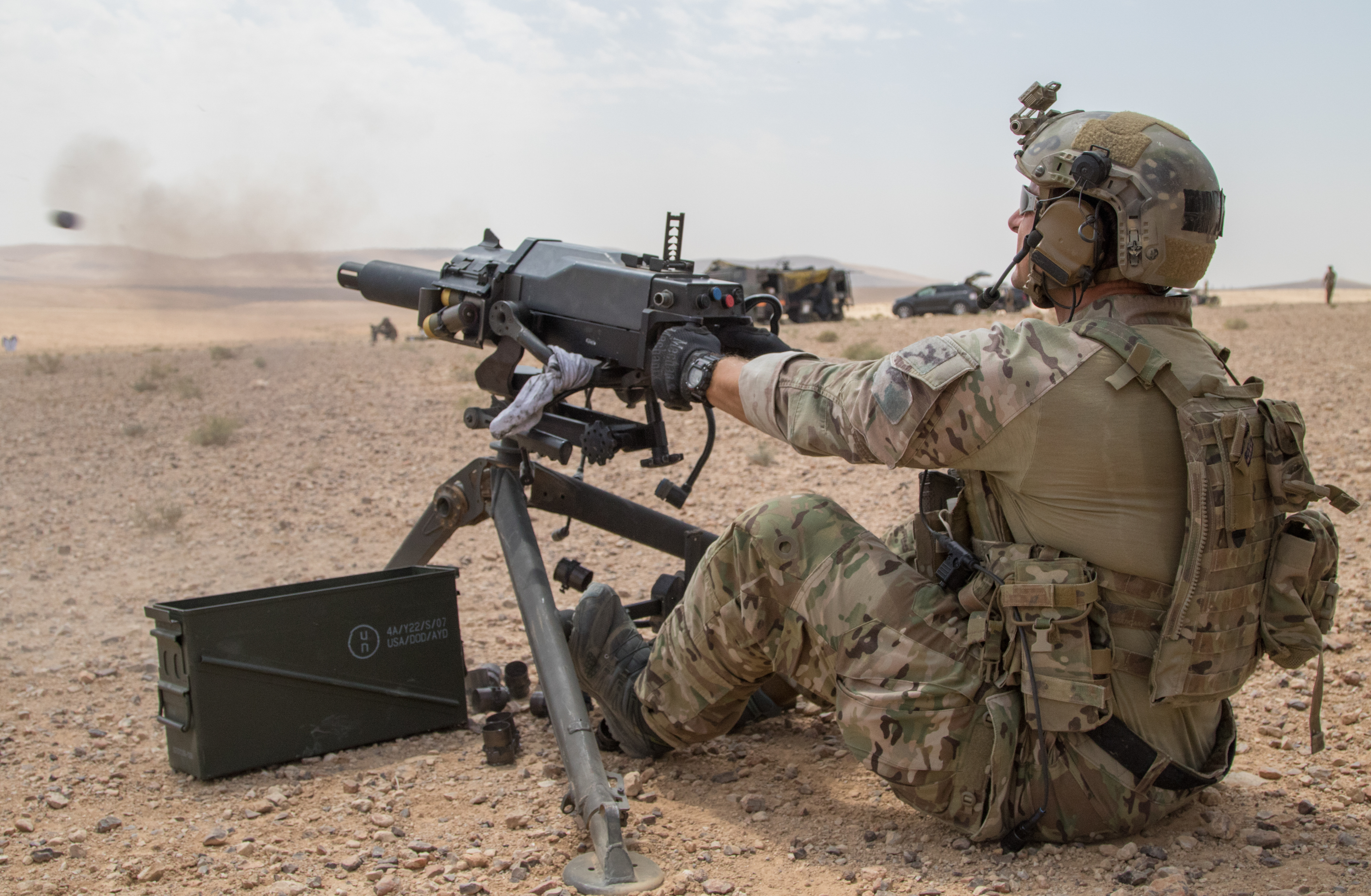 A soldier assigned to U.S. Army Special Operations Command demonstrates firing positions on the Mk 47 Strike 40mm grenade launcher to a member of the Saudi Arabian Naval Special Forces during joint forces weapons training in a tactical training area in Amman, Jordan, Aug. 28, 2019, as part of Exercise Eager Lion 2019. Eager Lion, U.S. Central Command's largest and most complex exercise, is an opportunity to integrate forces in a multilateral environment, operate in realistic terrain and strengthen military-to-military relationships. (U.S. Army National Guard photo by Sgt. Devon Bistarkey)